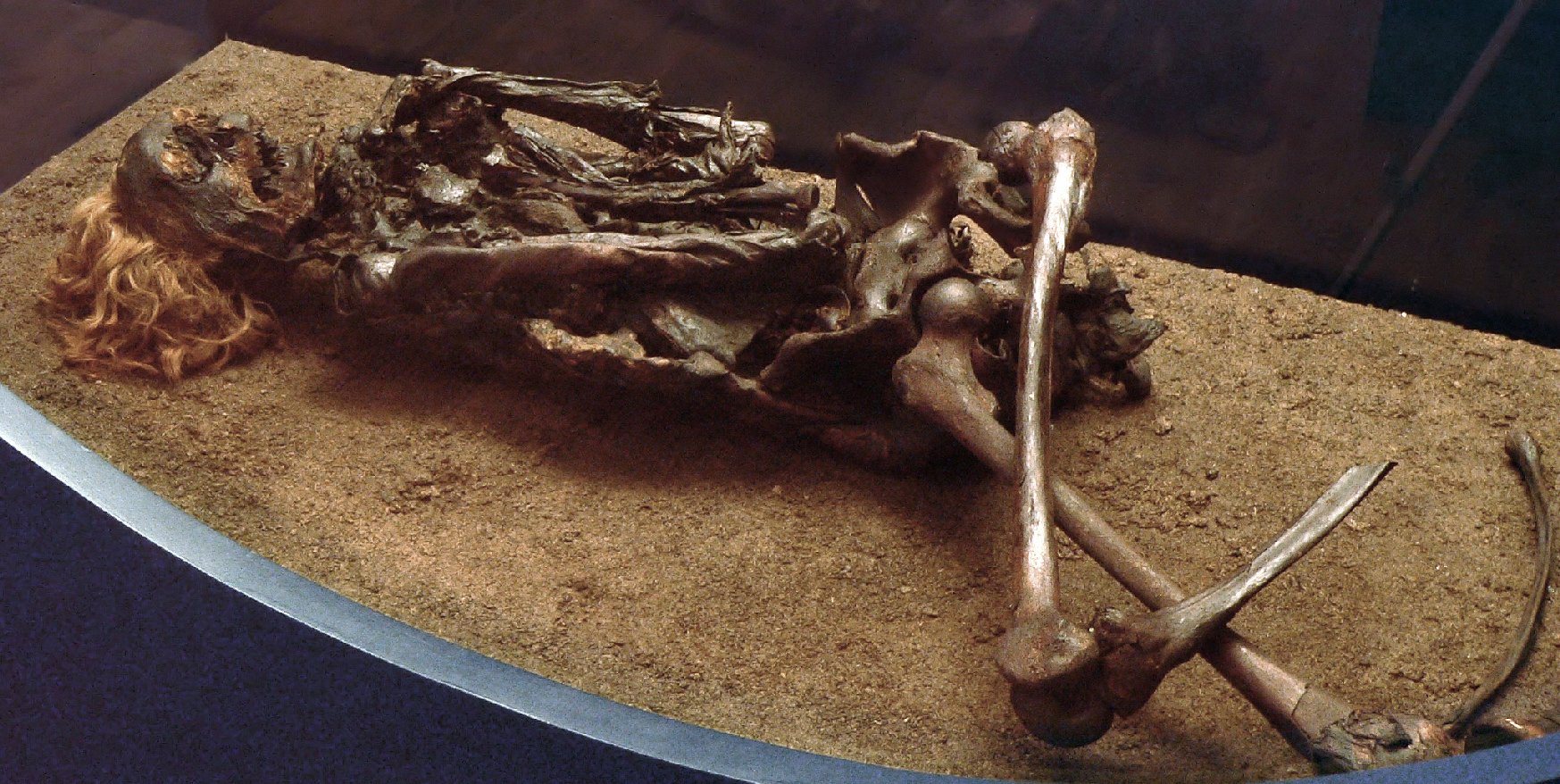 Bog body Neu Versen Man, also known as Red Franz at Niedersächsisches Landesmuseum Hannover, Germany